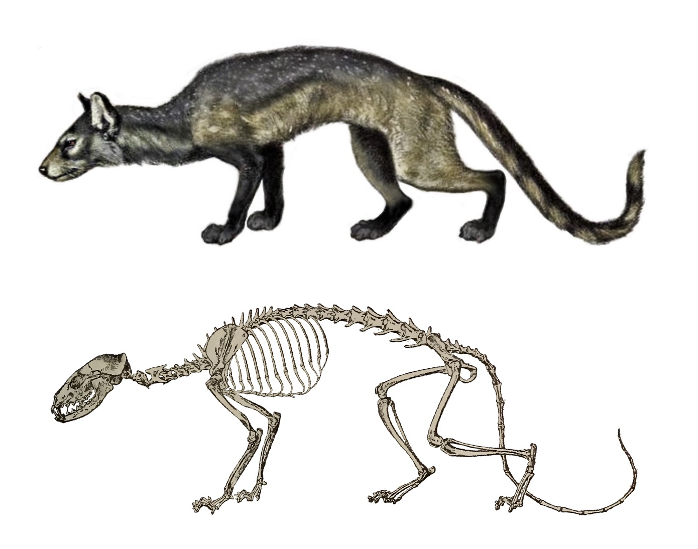 Restoration and skeleton of Hesperocyon gregarius